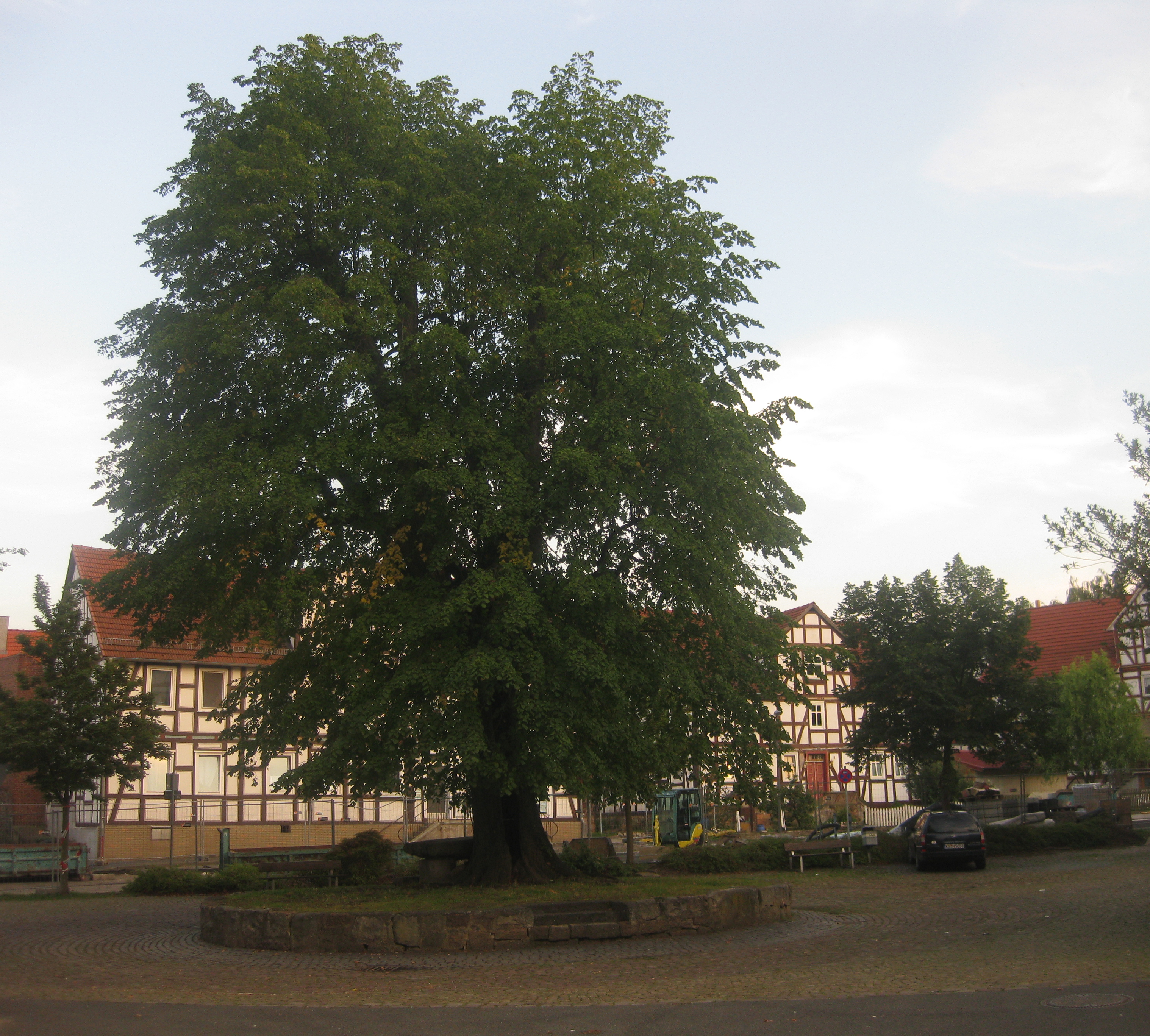 The former basswood/lime tree of Vollmarshausen, Lohfelden